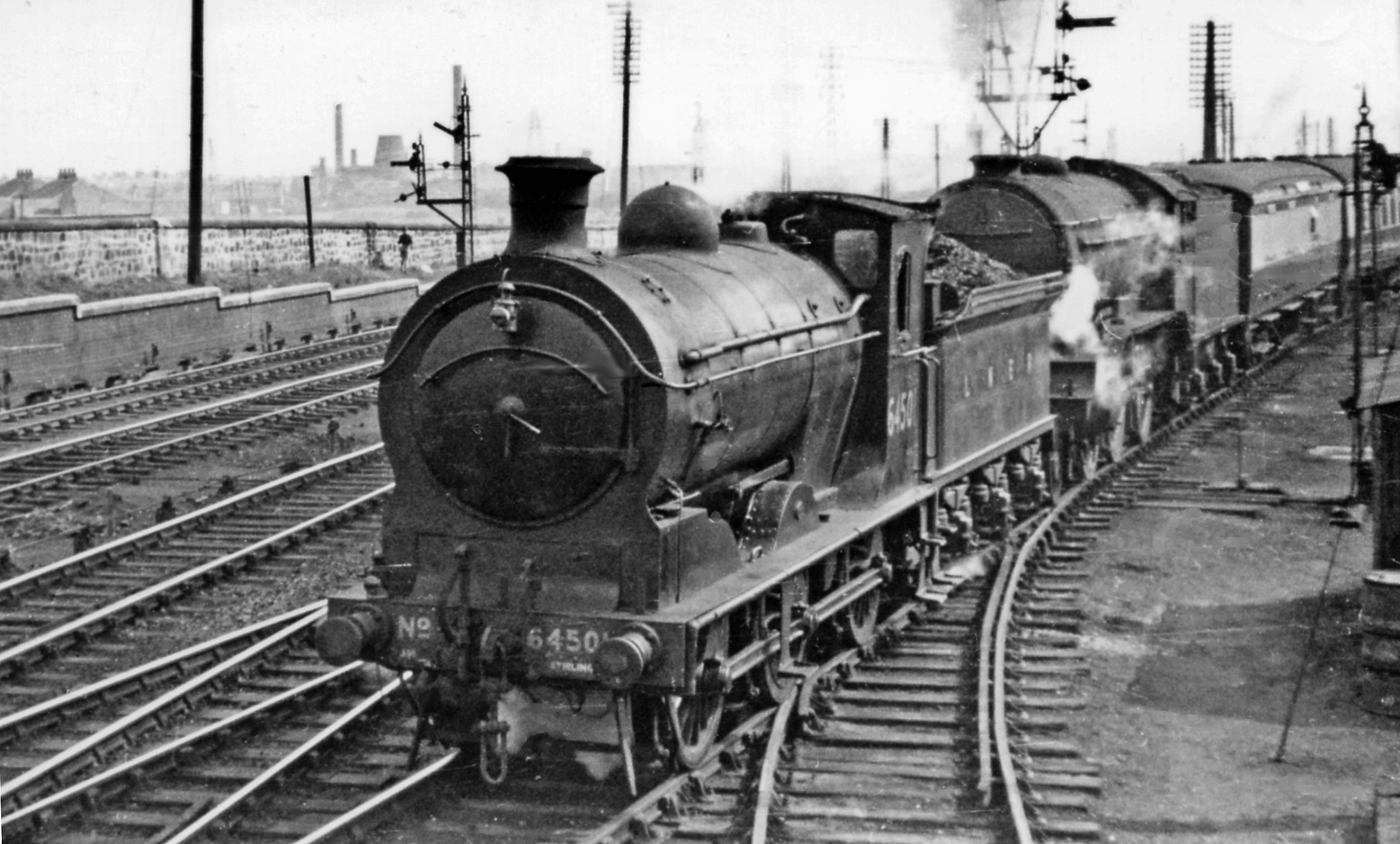 Double-headed empty stock train coming out of Craigentinny Carriage Depot. View eastwards, towards Dunbar, Berwick etc. on the ex-North British ECML at Craigentinny, west of Portobello. A possibly unusual combination of ex-NB Reid J35 0-6-0 No. 64501 is piloting Gresley K3 2-6-0 No. 61916 on stock going to Edinburgh Waverley for an express working.